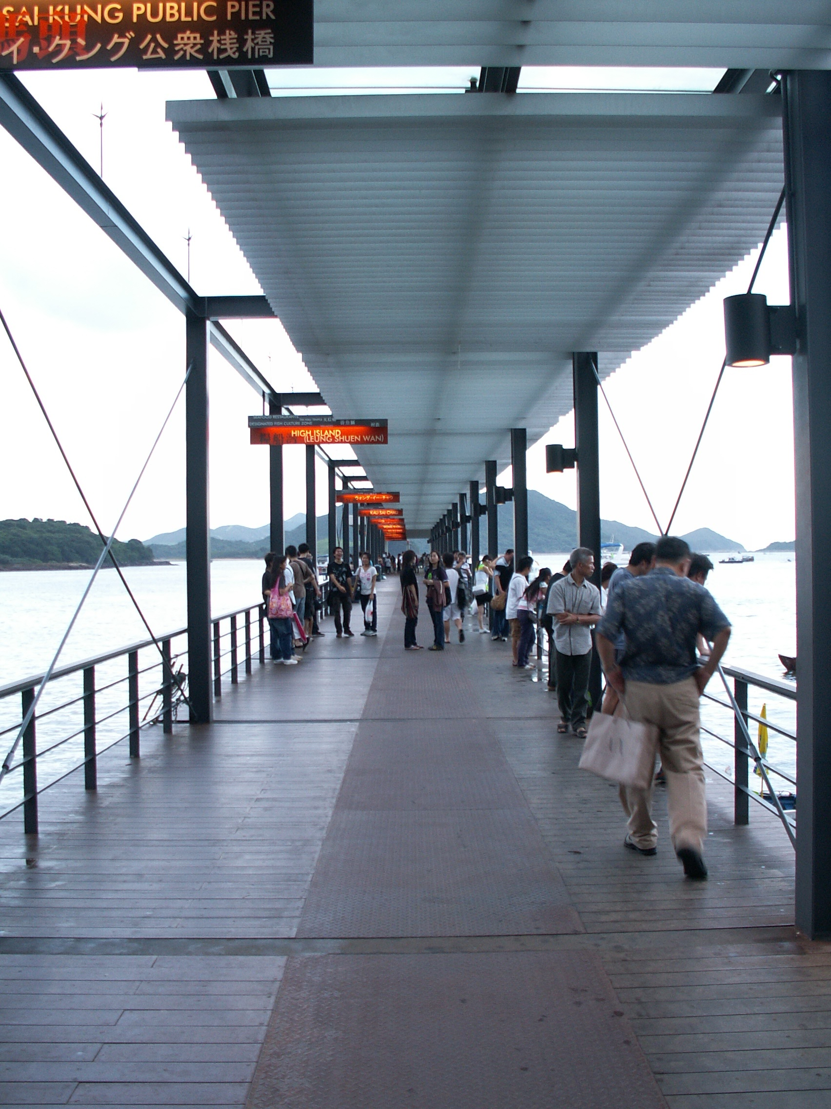 Sai Kung Public Pier, Hong Kong Photo taken on 26 June, 2005 by User:Lorenzarius.